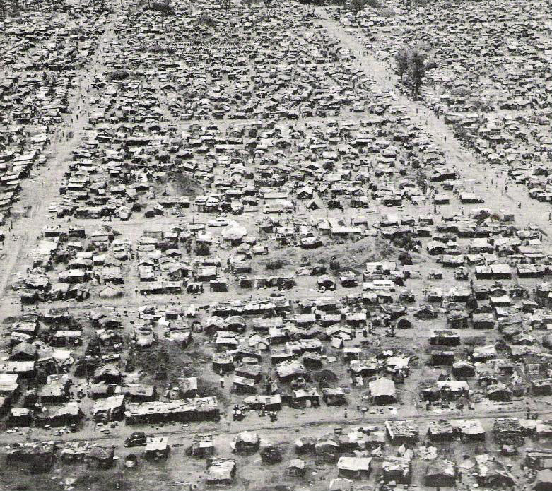 A UN refugee camp set up for Baluba people a few miles from Elisabethville during the Congo Crisis. Approximately 40,000 Baluba resided there.